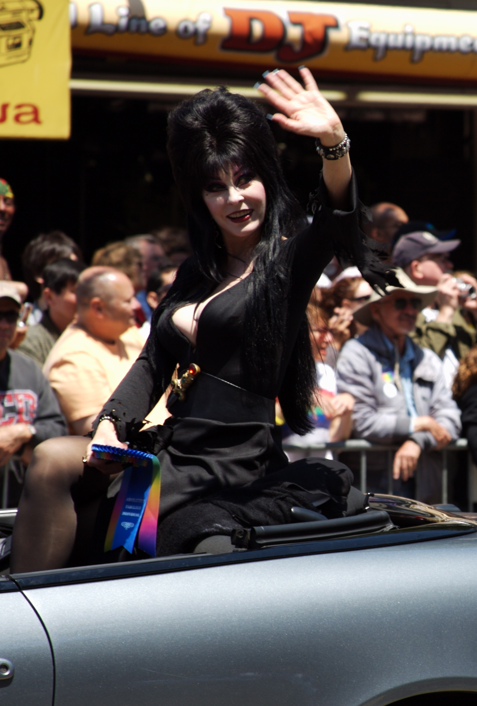 American actress Cassandra Peterson as her comedy horror character Elvira, Mistress of the Dark, waving from a car in the San Francisco 2006 Gay Pride parade.